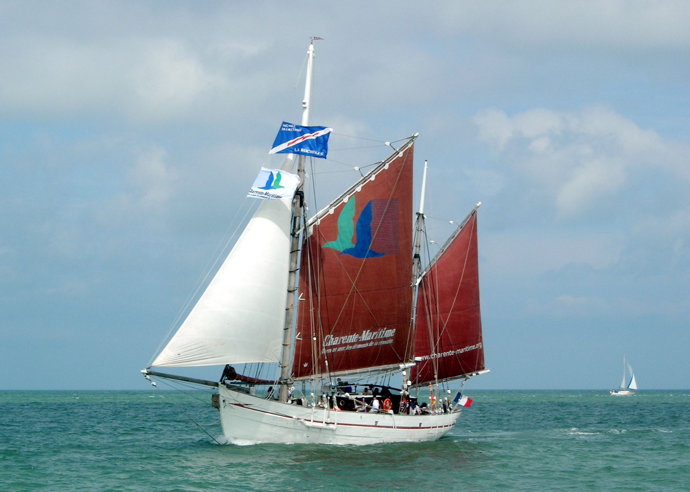 Description =Notre Dame des Flots a la Rochelle Source =Photo taken by Remi Jouan Date =Aout 2006 Author =Remi Jouan